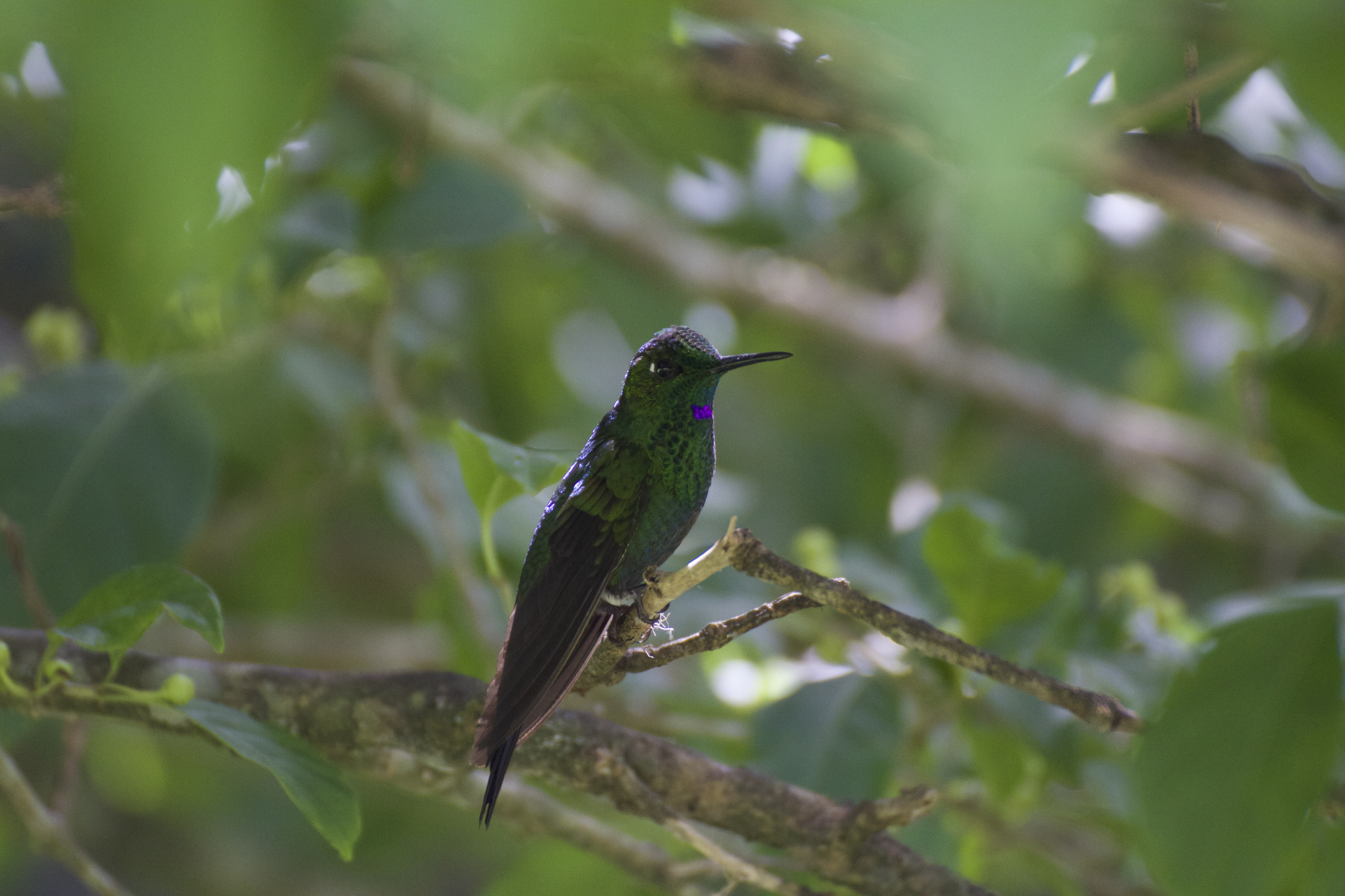 An image of one of many hummingbird species that can be found in the cloud forests of Costa Rica.